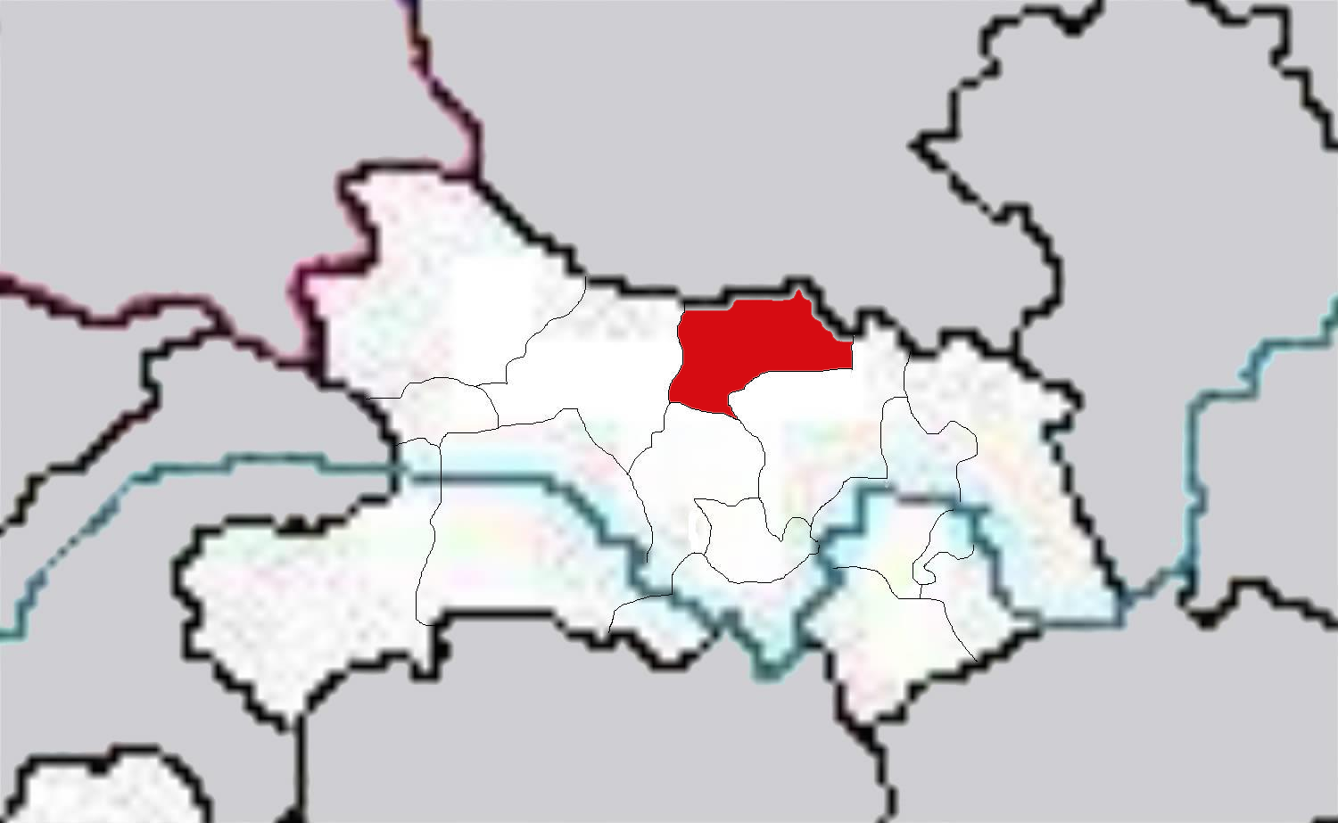 Maps of Hubei Province of China